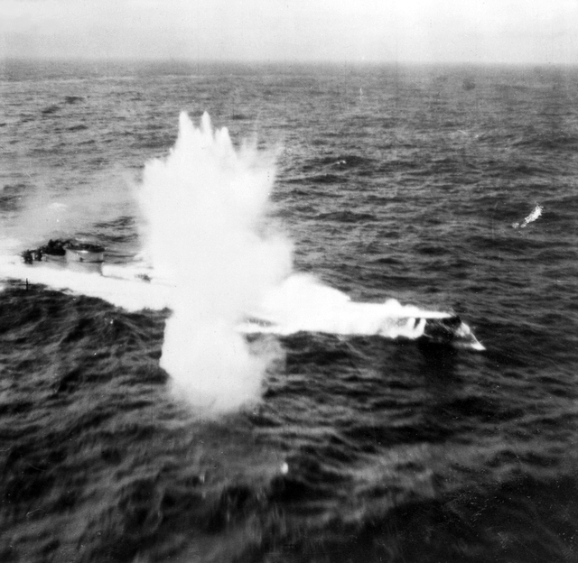 A RAF Coastal Command Liberator aircraft from No. 120 Squadron commanded by Flight Lieutenant A.W. Fraser, of Queensland (Australia), attacked and subsequently sank the German type IXD2 U-boat U 200, which is seen receiving direct hits forward of the conning tower. U 200 was sunk south-west of Iceland, in position 58.15N - 25.25W, by 2 depth charges, 68 dead (all hands lost, including 7 members from the German special forces "Brandenburg" unit).